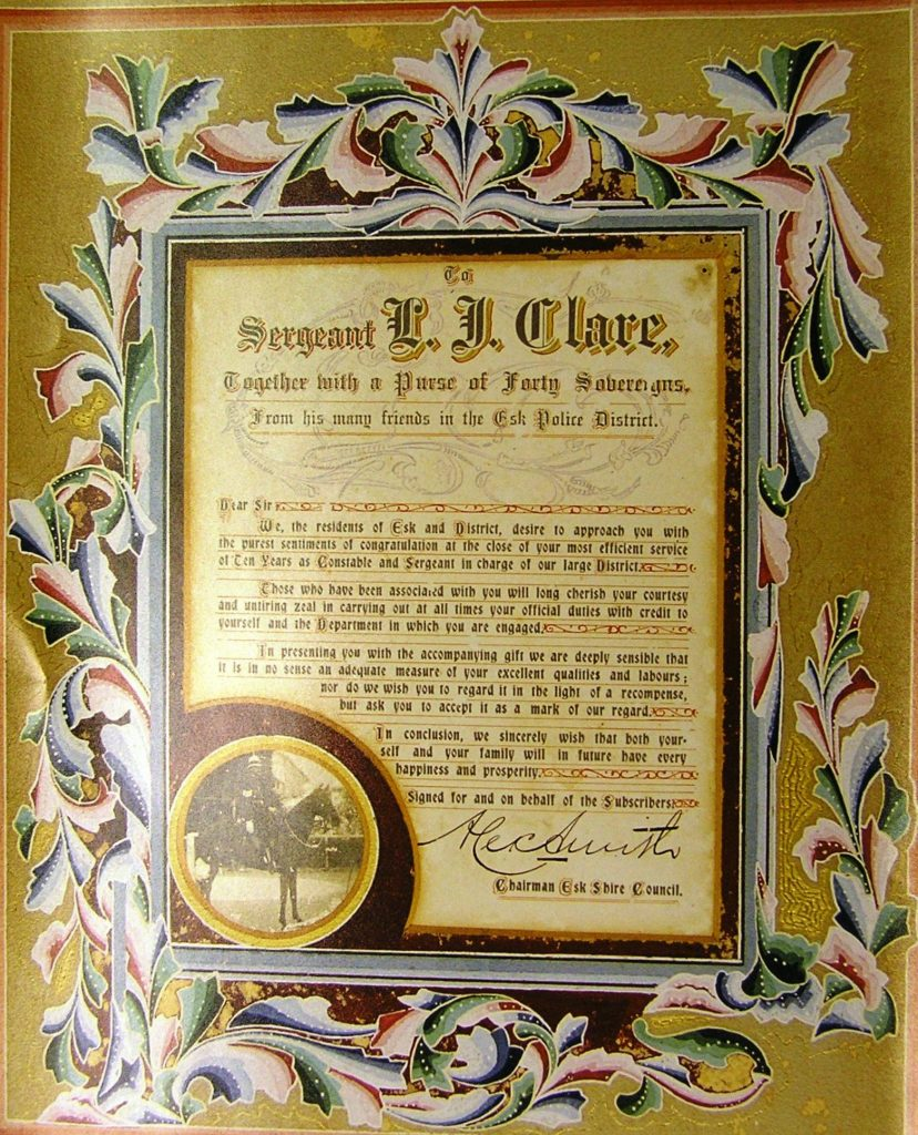 This highly decorated missive was presented to Sergeant Lawrence Clare by the citizens of the Esk District when he was transferred in March 1909. Courtesy of the Queensland Police Museum Collection. It reads: To Sergeant L. J. Clare Together with a Purse of Forty Sovereigns From his many friends in the Esk Police District Dear Sir We, the residents of Esk and District, desire to approach you with the purest sentiments of congratulation at the close of your most efficient service of Ten Years as Constable and Sergeant in charge of our large District. Those who have been associated with you will long cherish your courtesy and untiring zeal in carrying out at all times your official duties with credit to yourself and the Department in which you are engaged. In presenting you with the accompanying gift we are deeply sensible that it is in no sense an adequate measure of your excellent qualities and labours; nor do we wish you to regard it in the light of a recompense but ask you to accept it as a mark of our regard. In conclusion, we sincerely wish that both yourself and your family will in future have every happiness and prosperity. Signed for on behalf of the Subscribers. Alex Smith, Chairman Esk Shire Council